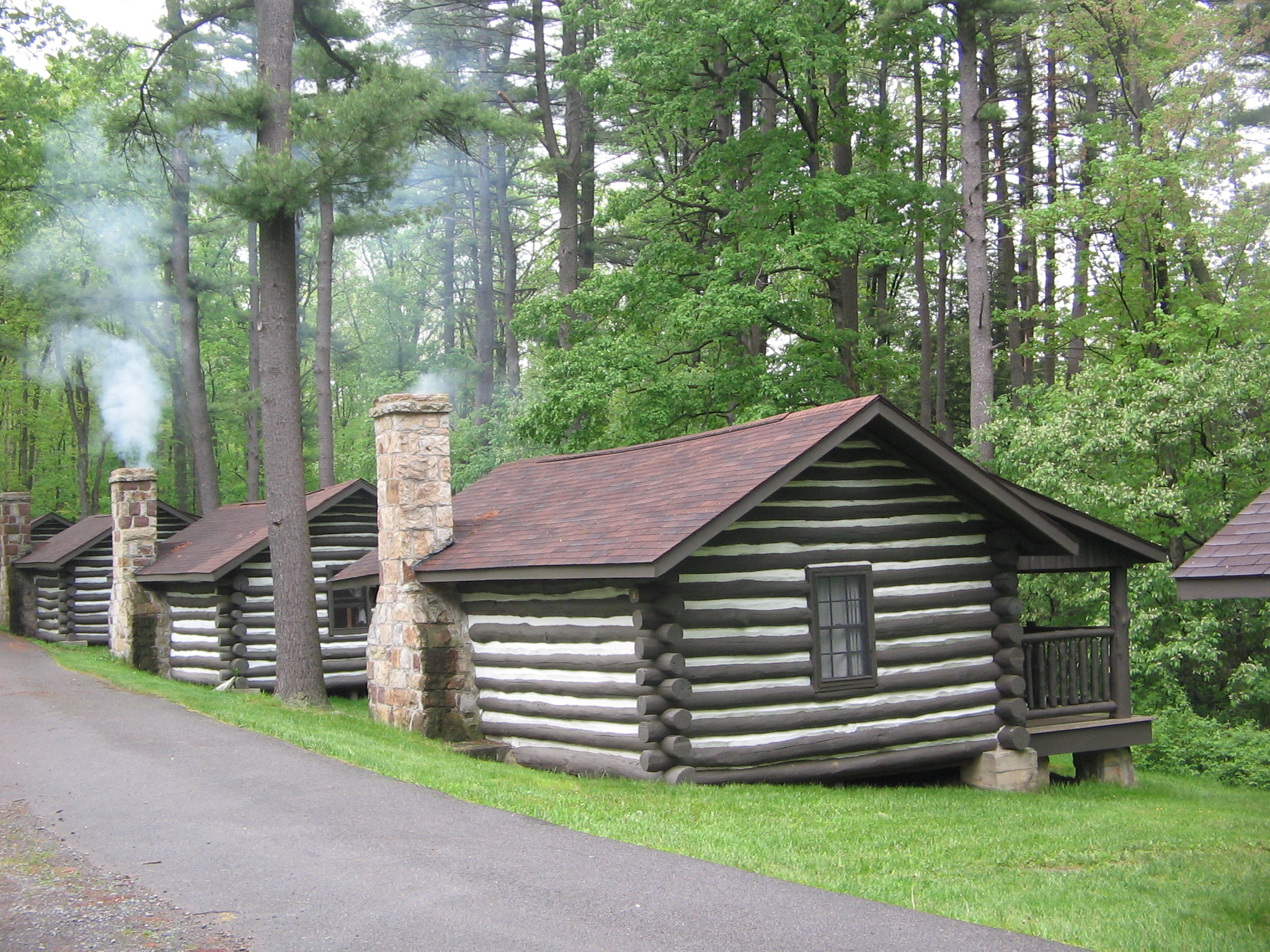 CCC built Cabins (Number 9, two rooms closest to camera, 10 and 11 behind it) at Black Moshannon State Park, near Phillipsburg, Rush Township, Centre County, Pennsylvania, USA.